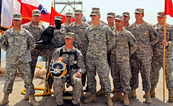 CAMP PATRIOT, Kuwait (August 13, 2009) - The 86th Engineer Dive Team stands together and answers questions about receiving the Coastal America Partnership Award and their mission in the Middle East, Aug. 10. The 86th Engineer Dive Team, based at Camp Patriot, Kuwait, currently provides support throughout the Central Command area of responsibility. They hold the mission capability to perform underwater construction and inspections, salvage, search and recovery, hydrographic survey, and underwater and surface demolition missions.